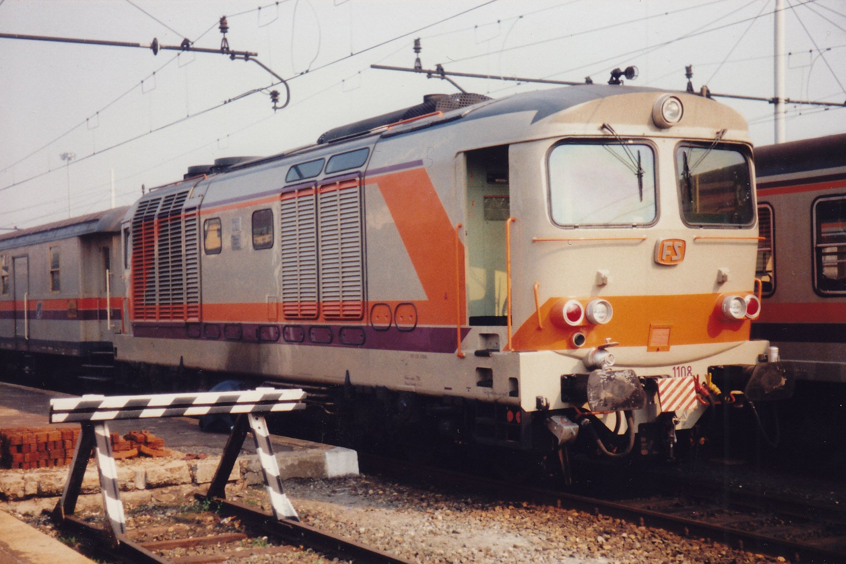 Italian Diesel locomotive D.445 1108 at Domodossola station